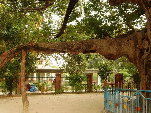 View of Parijat tree in the village of Kintoor, near Barabanki, Uttar Pradesh, India.